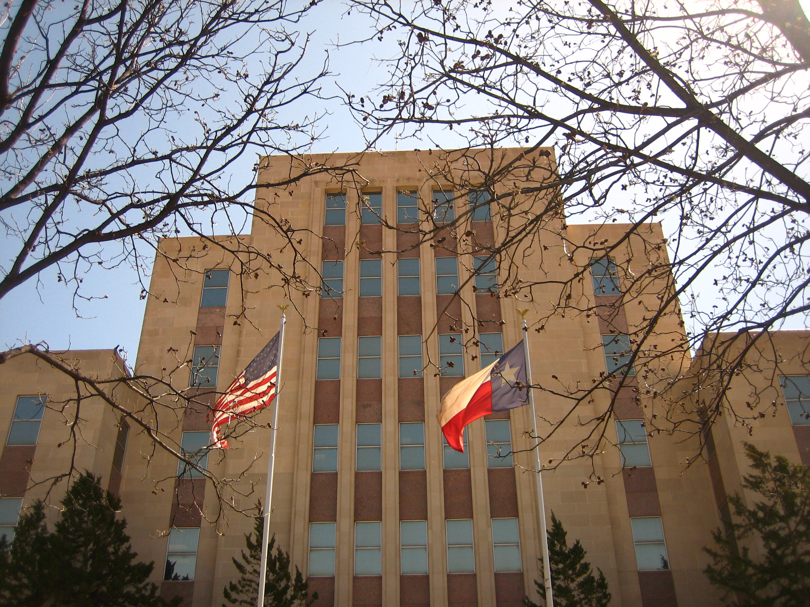 The current Lubbock County Courthouse in Lubbock, Texas, United States. I took photo on April 3, 2009.Billy Hathorn (talk) 16:25, 14 April 2009 (UTC)